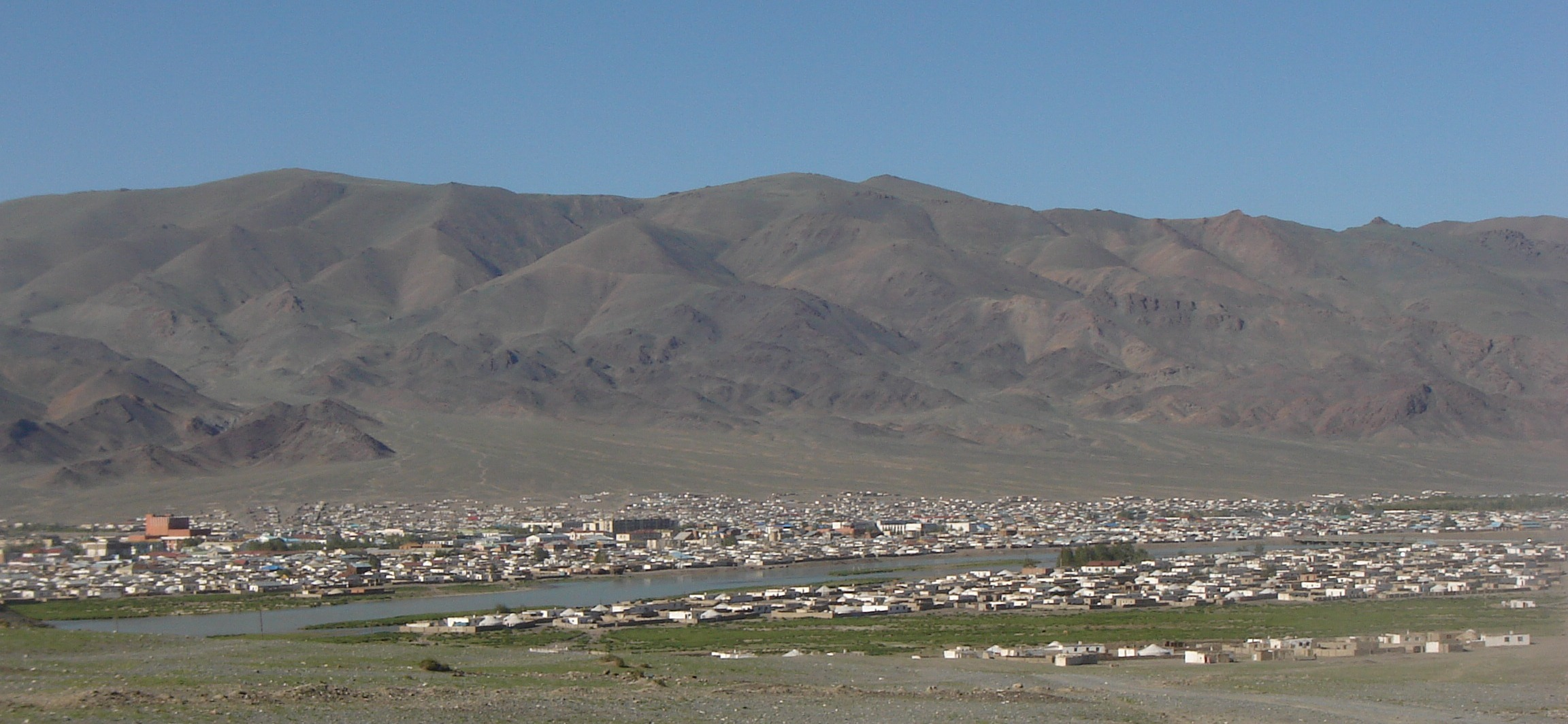 panaromic view of Olgii City, Bayan-Olgii